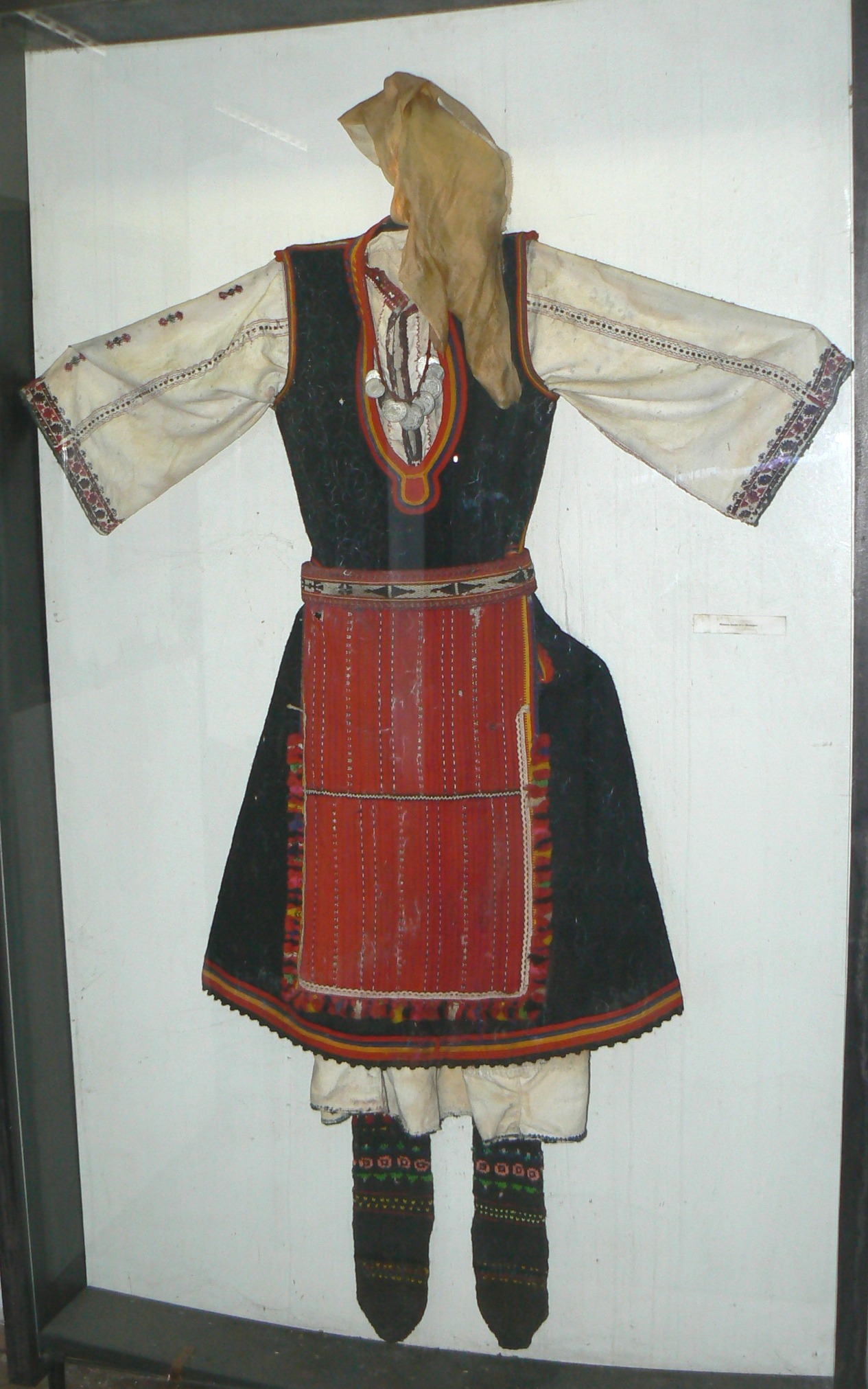 Female costume from Lesidren, exhibit of the Teteven History museum